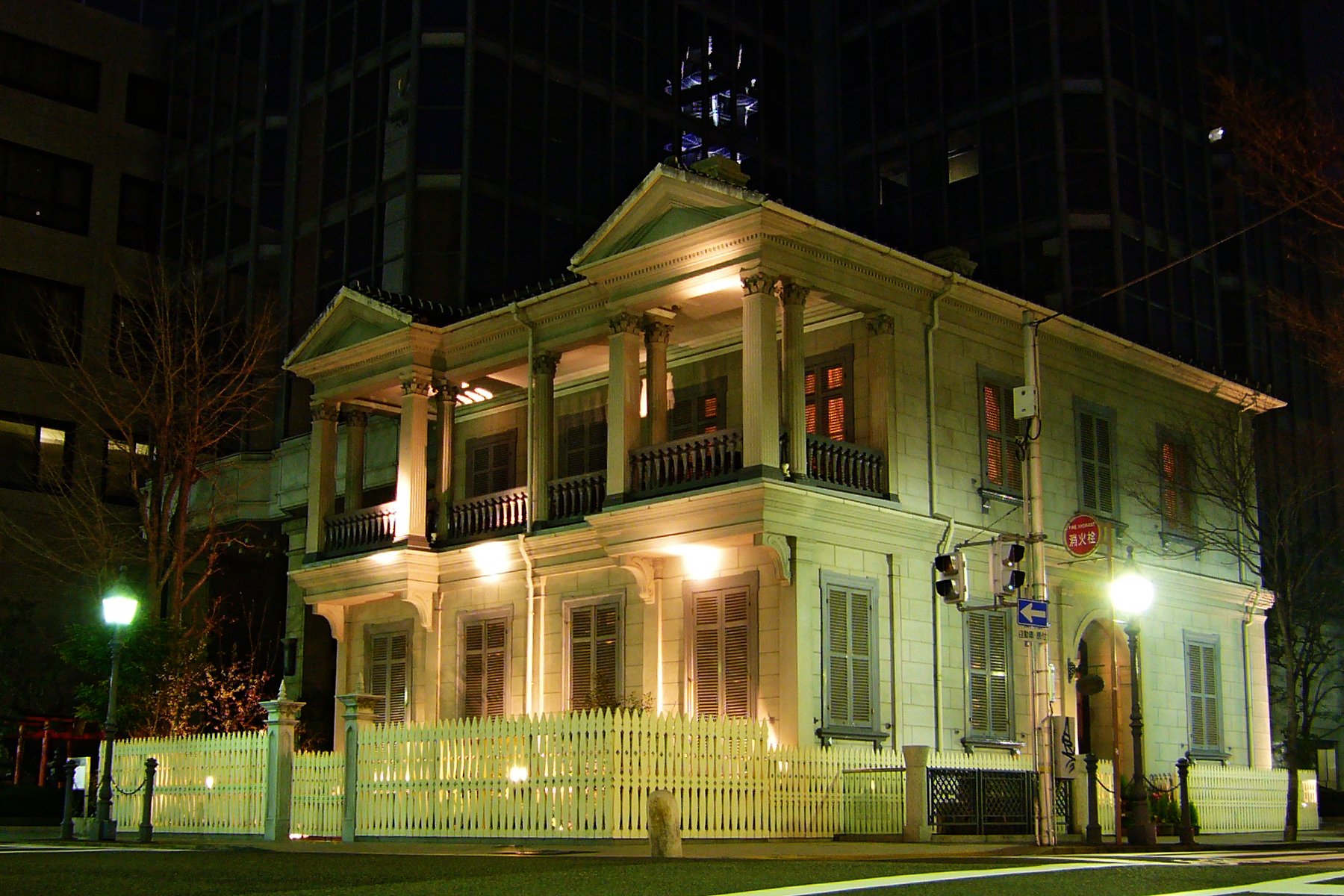 Kyukyoryuchi-15bankan in Kobe, Hyogo prefecture, Japan